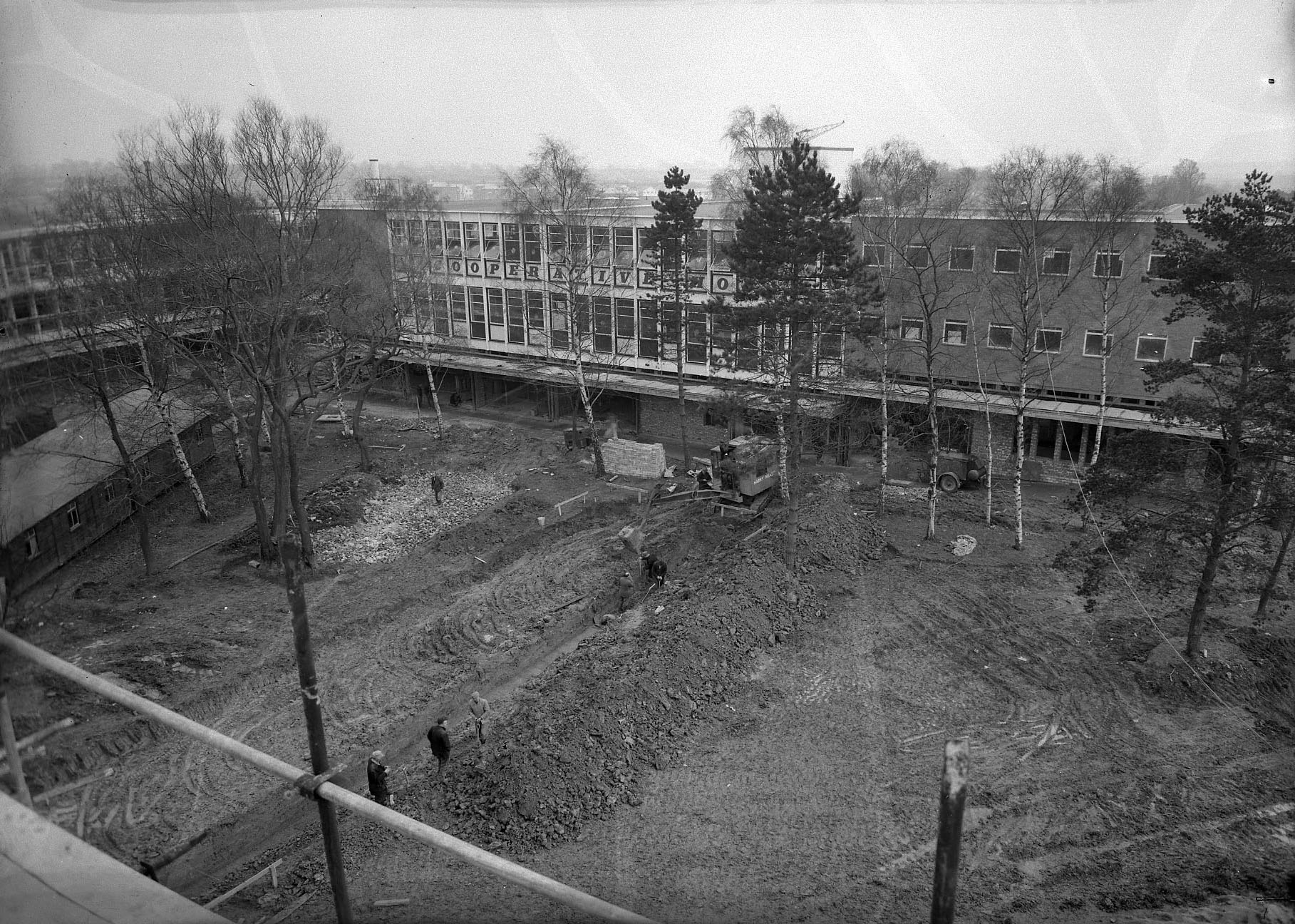 A black and white photo of Stevenage Town Square under development in 1959